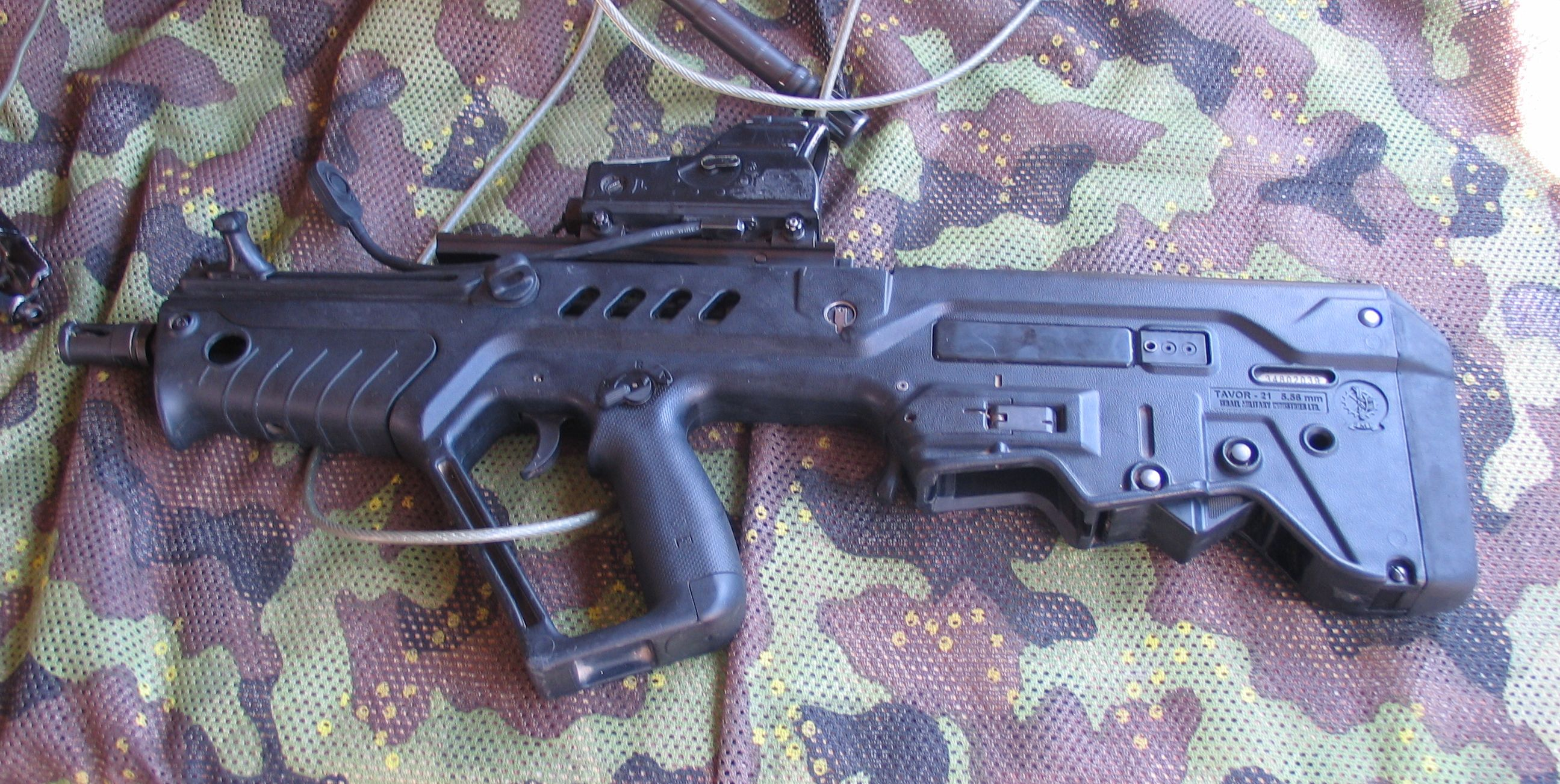 IMI Tavor (CTAR-21) assault rifle. Independence Day exhibition at Yad la-Shiryon Museum, Latrun, Israel.